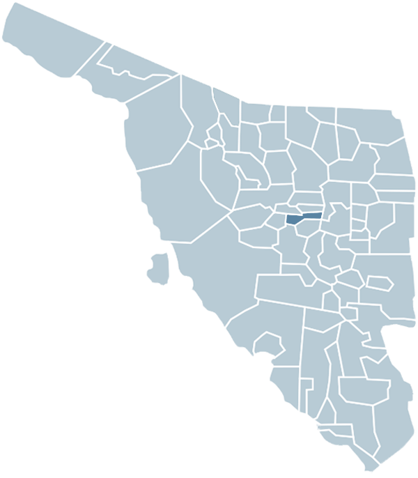 Map of the municipality of Aconchi, Sonora